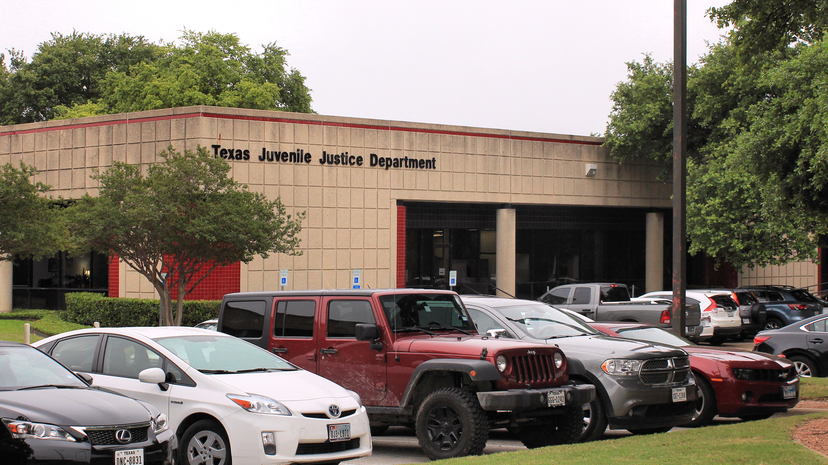 Texas Juvenile Justice Department headquarters in Austin, Texas, United States.